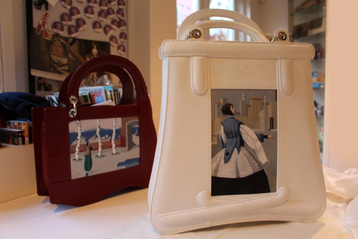 BiArtis handbag models Diana and Dalga.